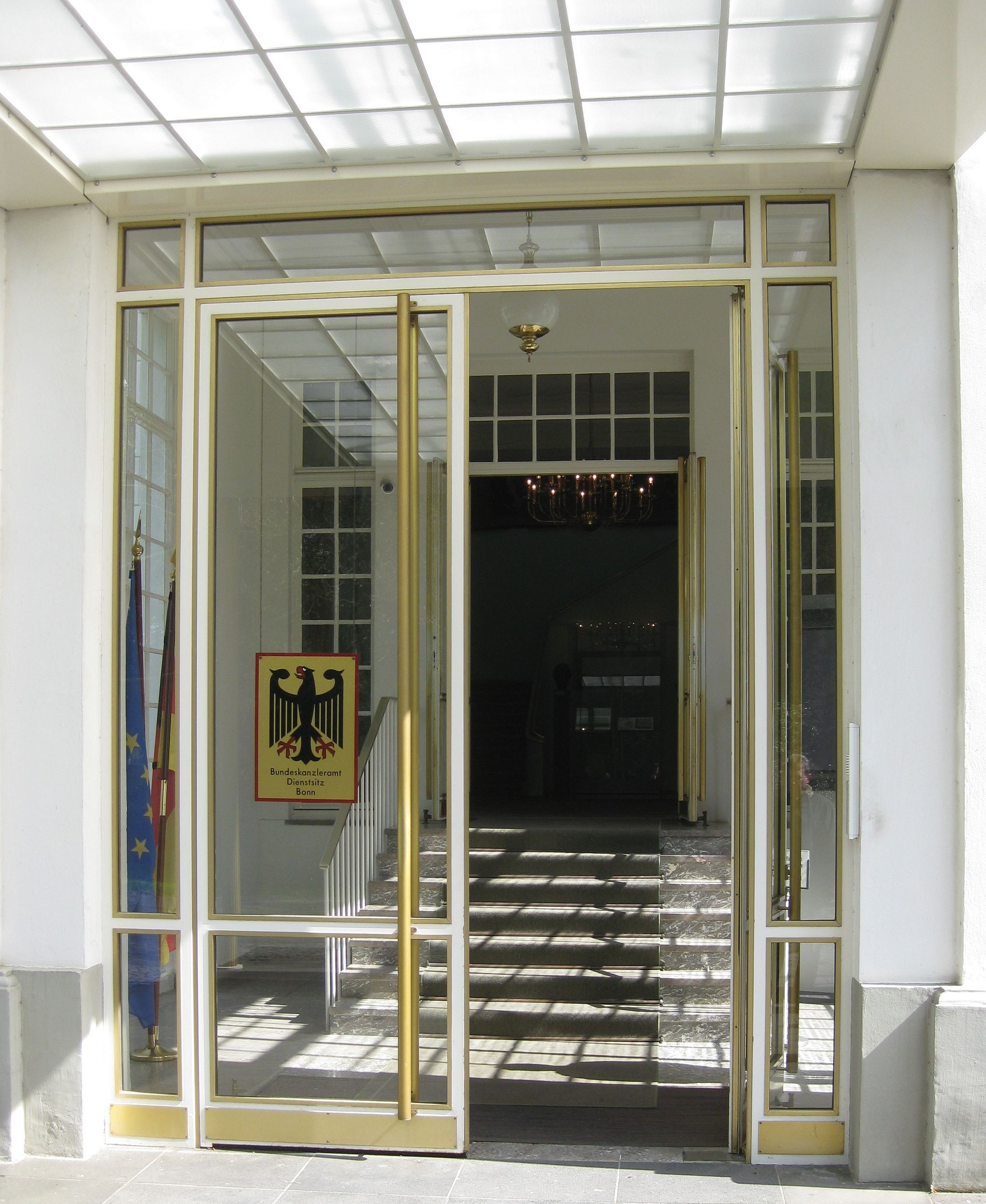 Germany, Bonn: Palais Schaumburg, alongside entrance.